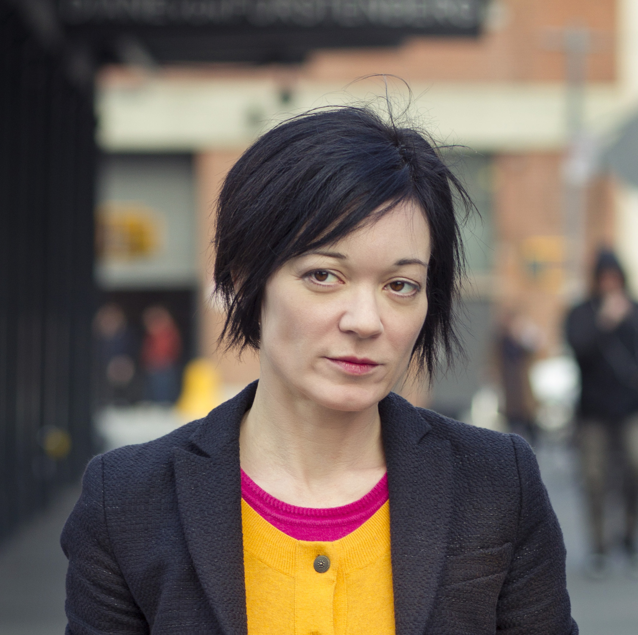 Photograph of Sue Gardner, street portrait (alt, vertical), shot December 2012. Photographs by Victoria Will ( for the Wikimedia Foundation. Changes made: Image rotated and cropped.